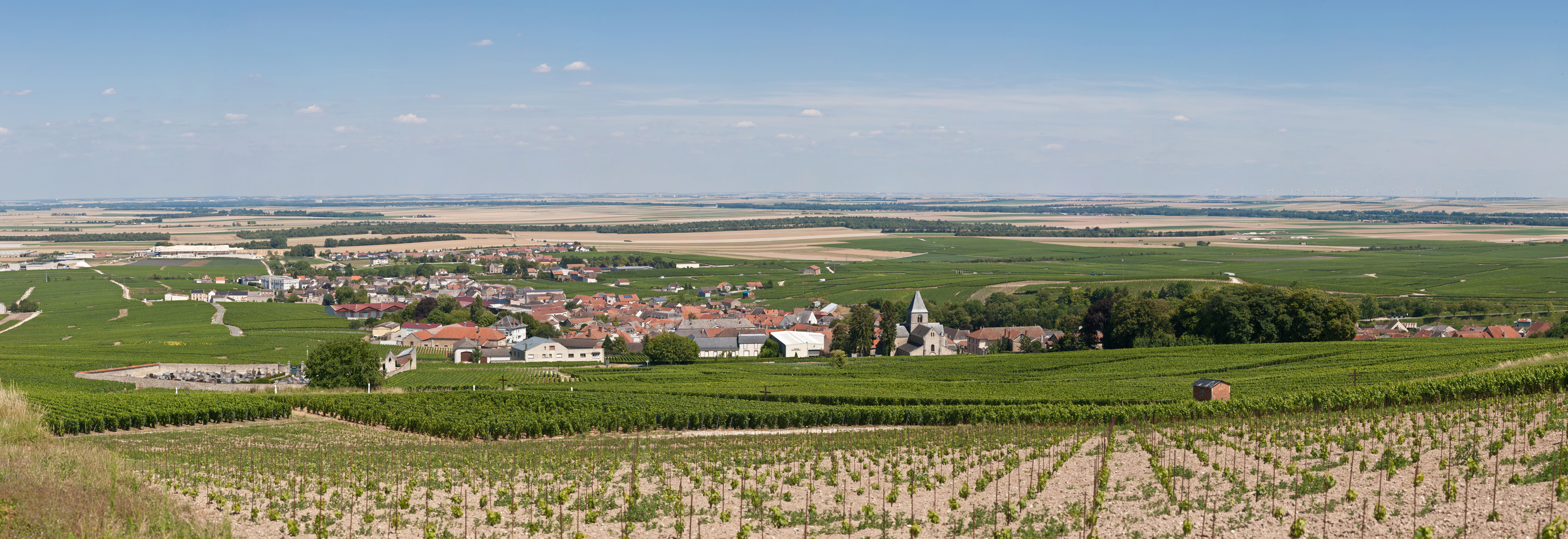 The village of Le-Mesnil-sur-Oger in Champagne, France, as viewed from the vinyards to the east.